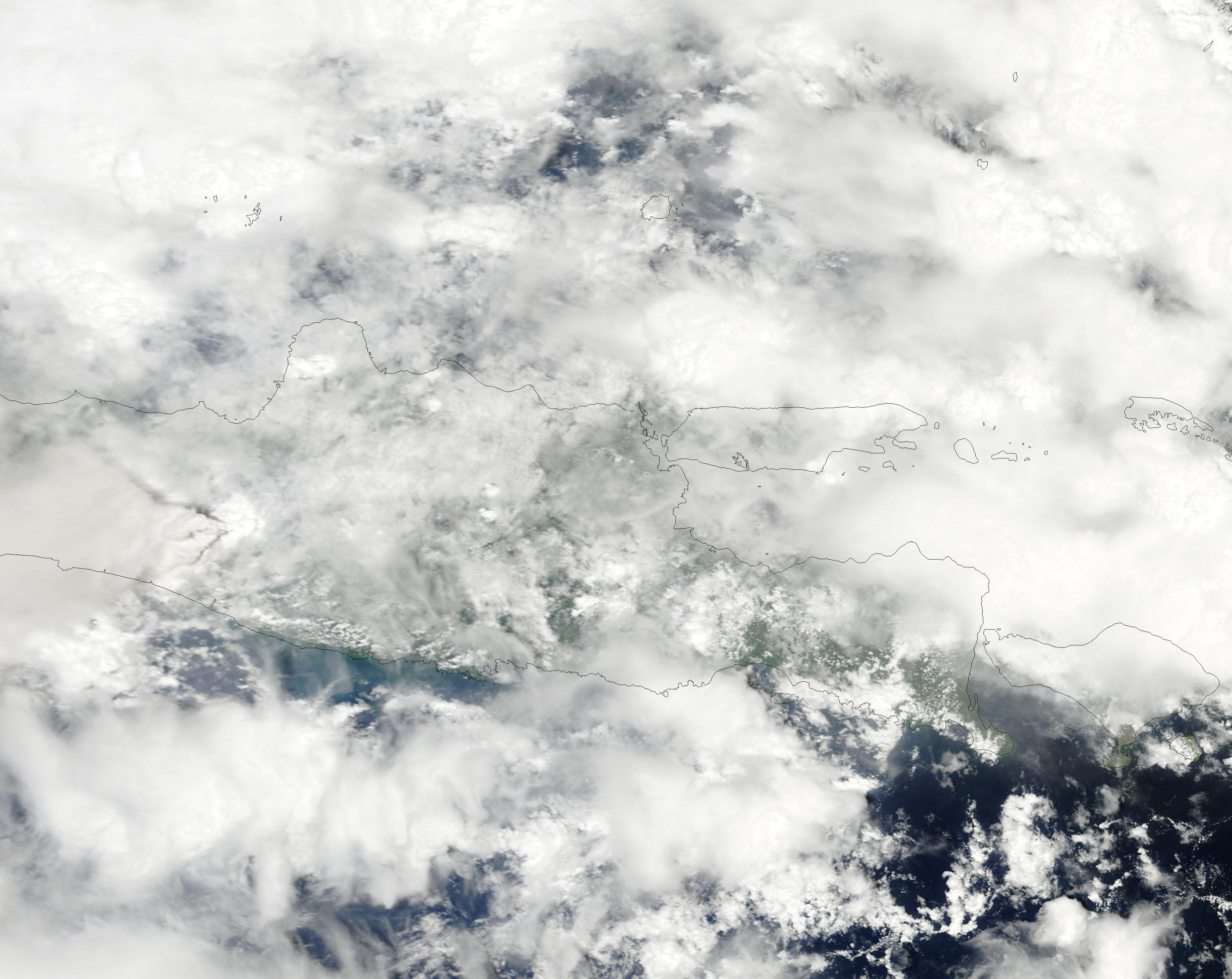 Signs of the eruption at Mount Merapi managed to puncture the persistent cloud cover over Java on November 5, 2010 when this natural-colour image was captured. The volcano’s plume formed a V shape, fanning out to the west from the summit and casting shadows on the surrounding clouds below.